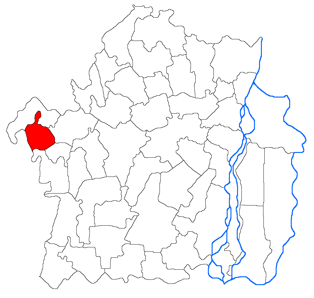 Limits of Commune of Jirlau in Braila County